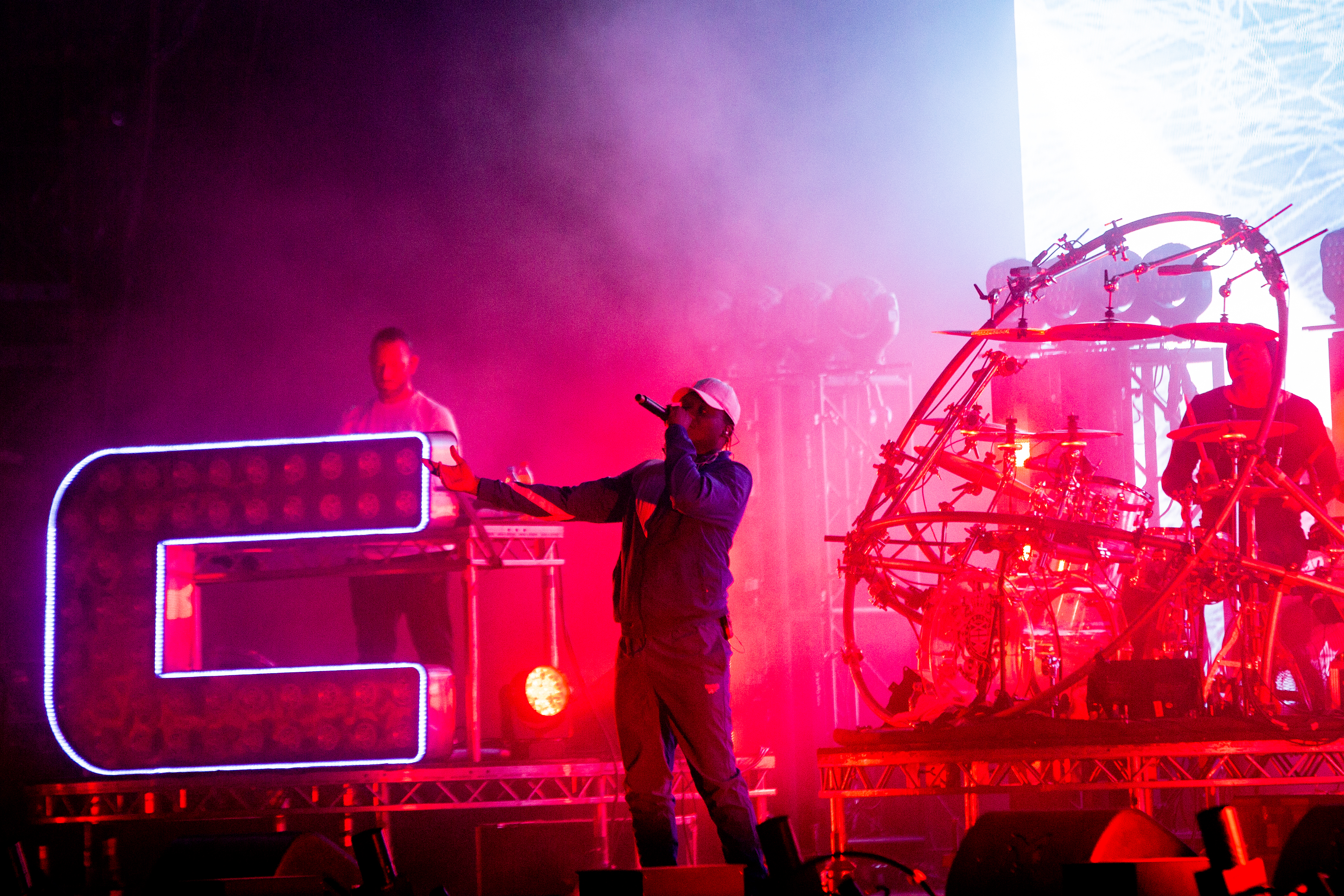 Chase & Status at SonneMondSterne 2018, Main Stage